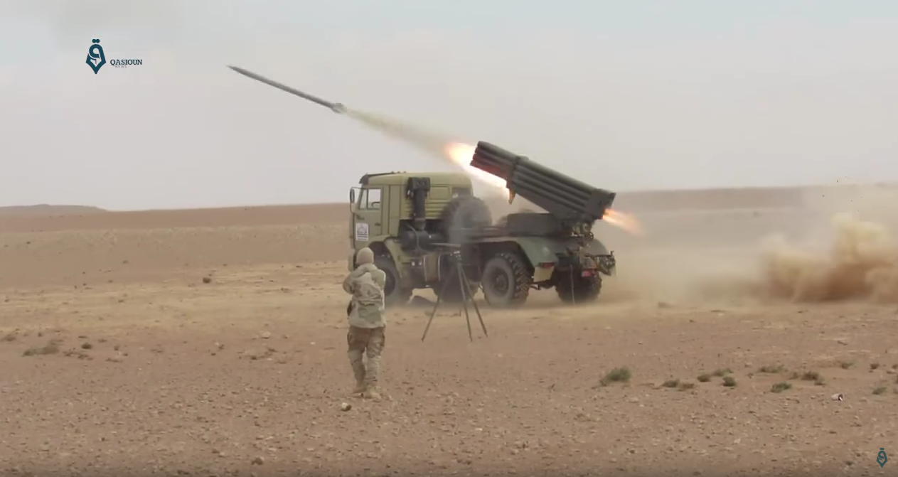 Rocket artillery of the Lions of the East Army, a Free Syrian Army unit in southern Syria.